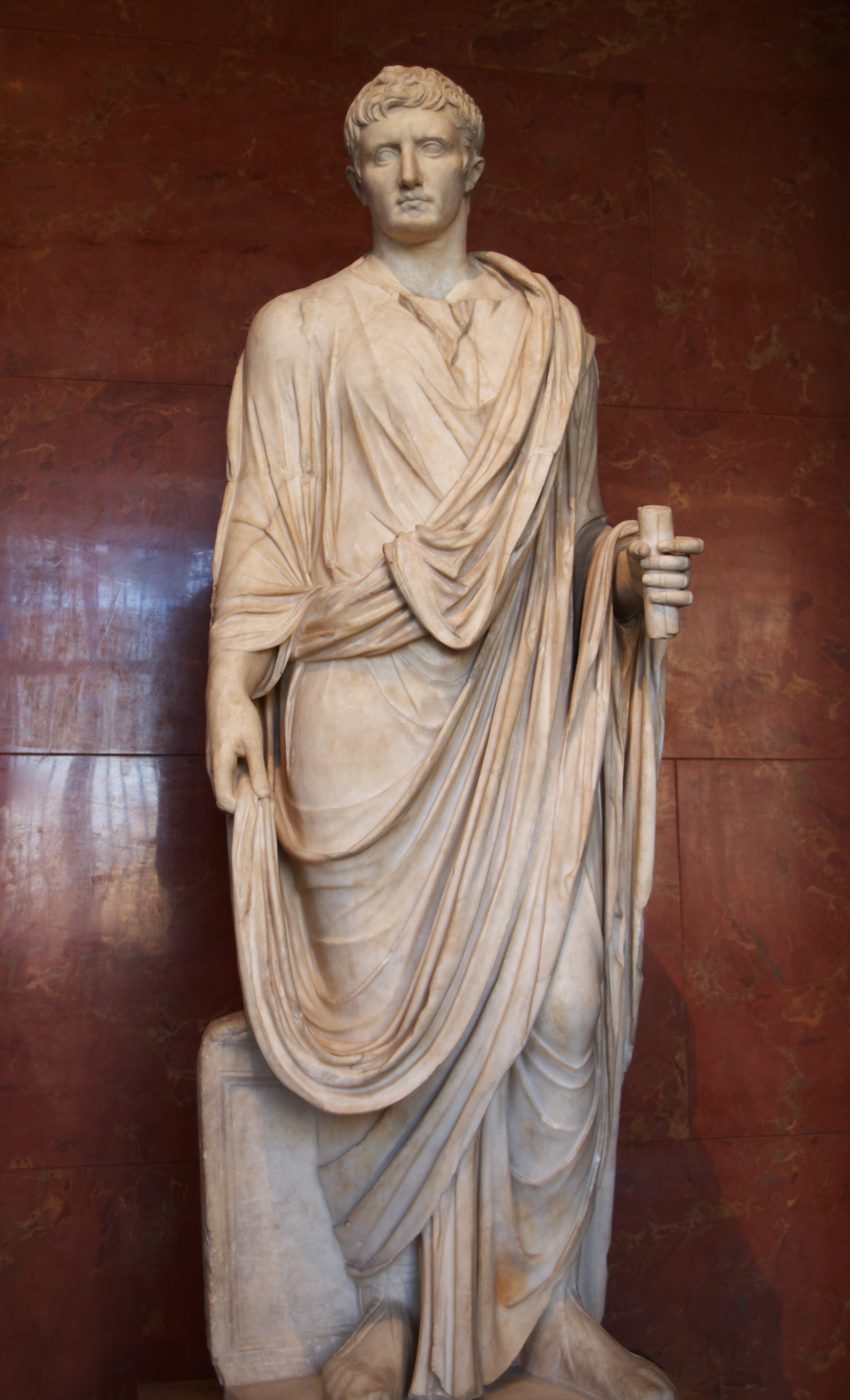 Portrait of Augustus created ca. 20–30 BC; the head does not belong to the statue, dated middle 2nd century AD.